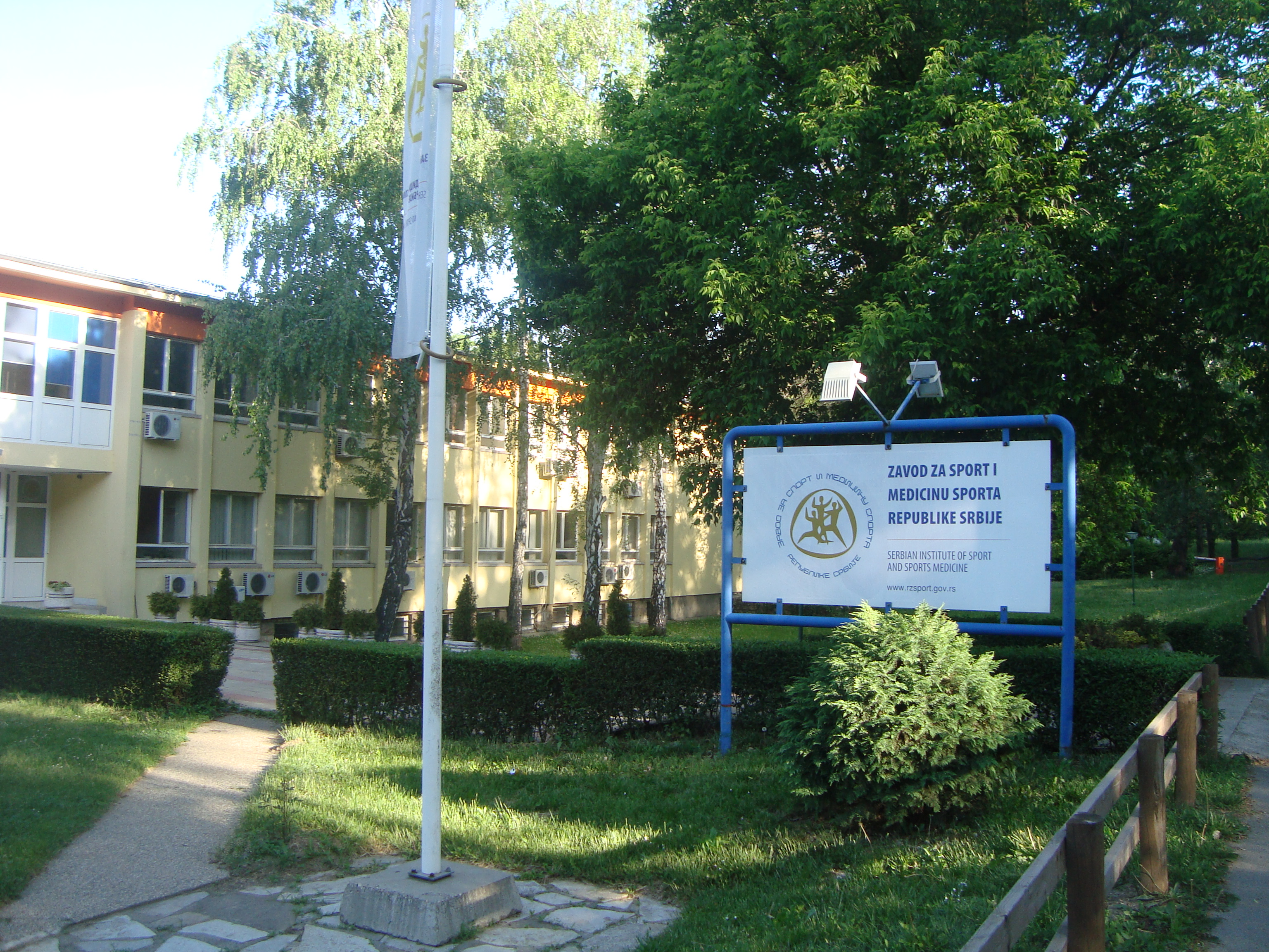 Serbian Institute of Sport and Sports Medicine